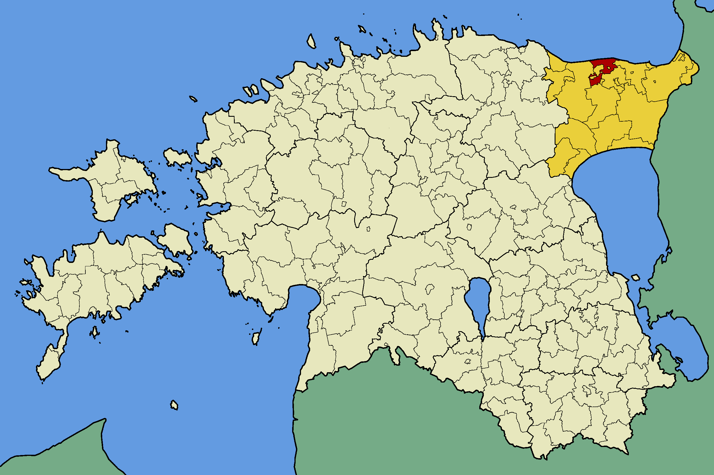 Map of Estonia with borders of municipalities (parishes). Ida-Viru county and Kohtla municipality emphasized.